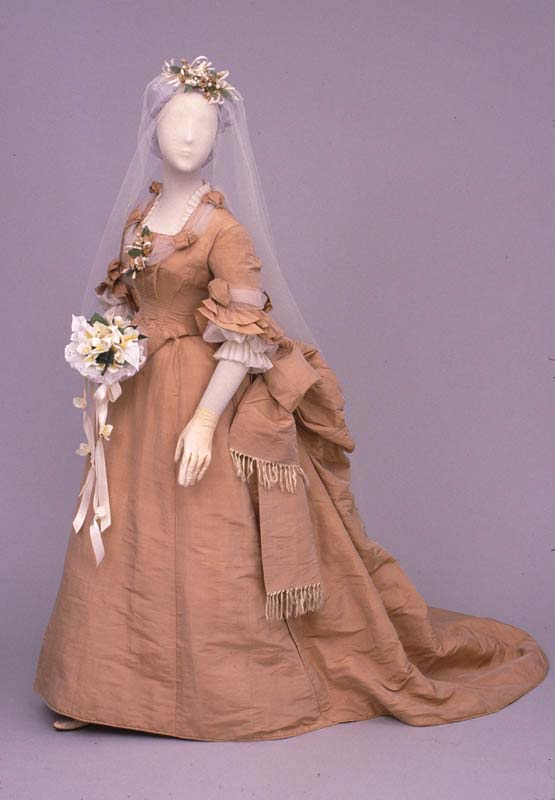 Description: Wedding dress Creator: Miss Tyrrell Object Origin: New York City, U.S.A. Date: ca. 1874-1878 Medium: silk taffeta changeante; lining glazed muslin Repository: Yeshiva University Museum, 15 West 16th Street, New York, NY 10011 Call Number: 1991.124 Rights Information: No known copyright restrictions; may be subject to third party rights. For more copyright information, click here. See more information about this image and others at CJH Museum Collections.